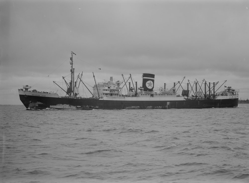 4,004 GRT Blue Star liner MV Brisbane Star, built 1937